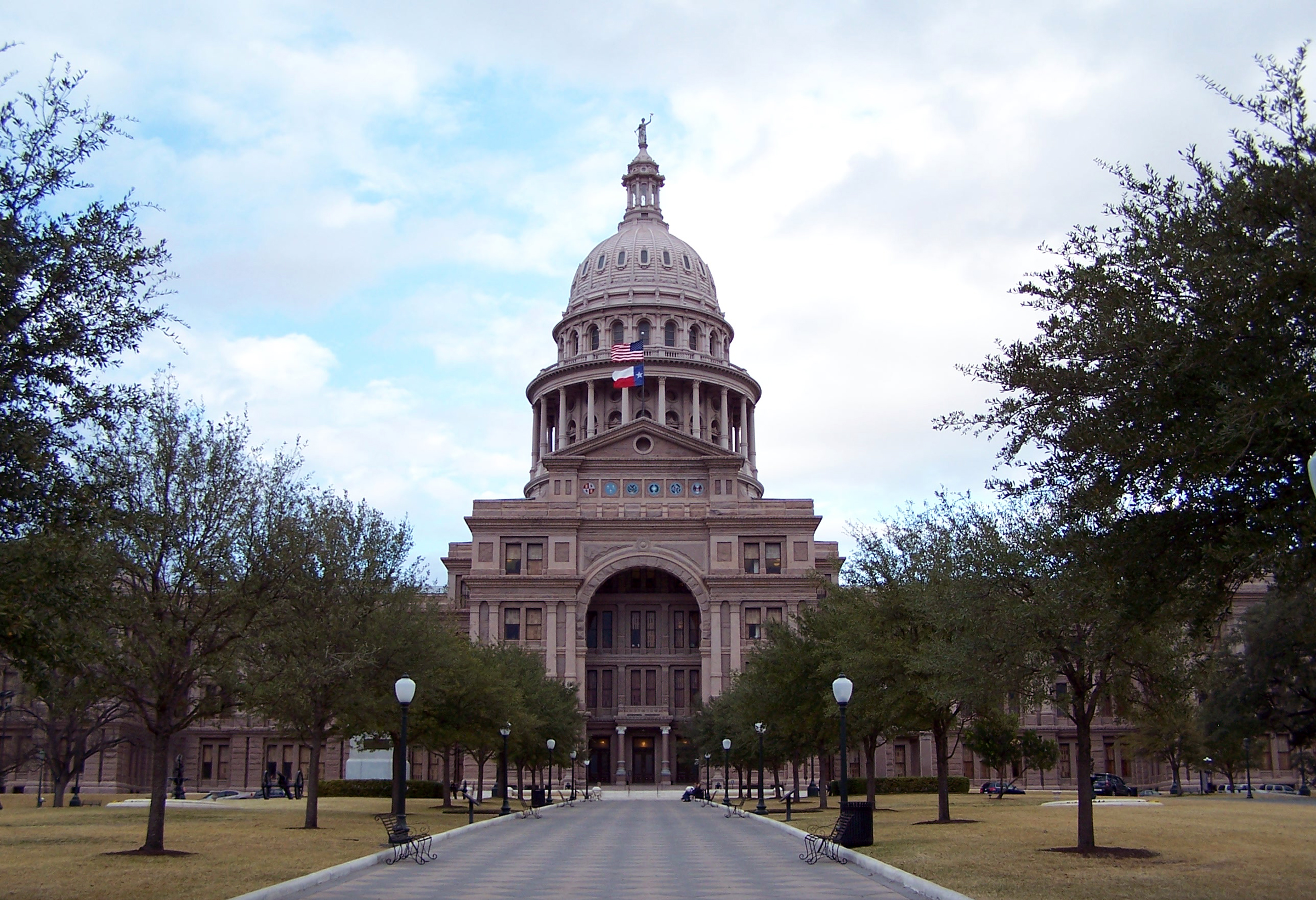 The Texas State Capitol located in Austin, Texas, United States. The Capitol was added to the National Register of Historic Places on June 22, 1970 and was recognized as a National Historic Landmark in 1986.